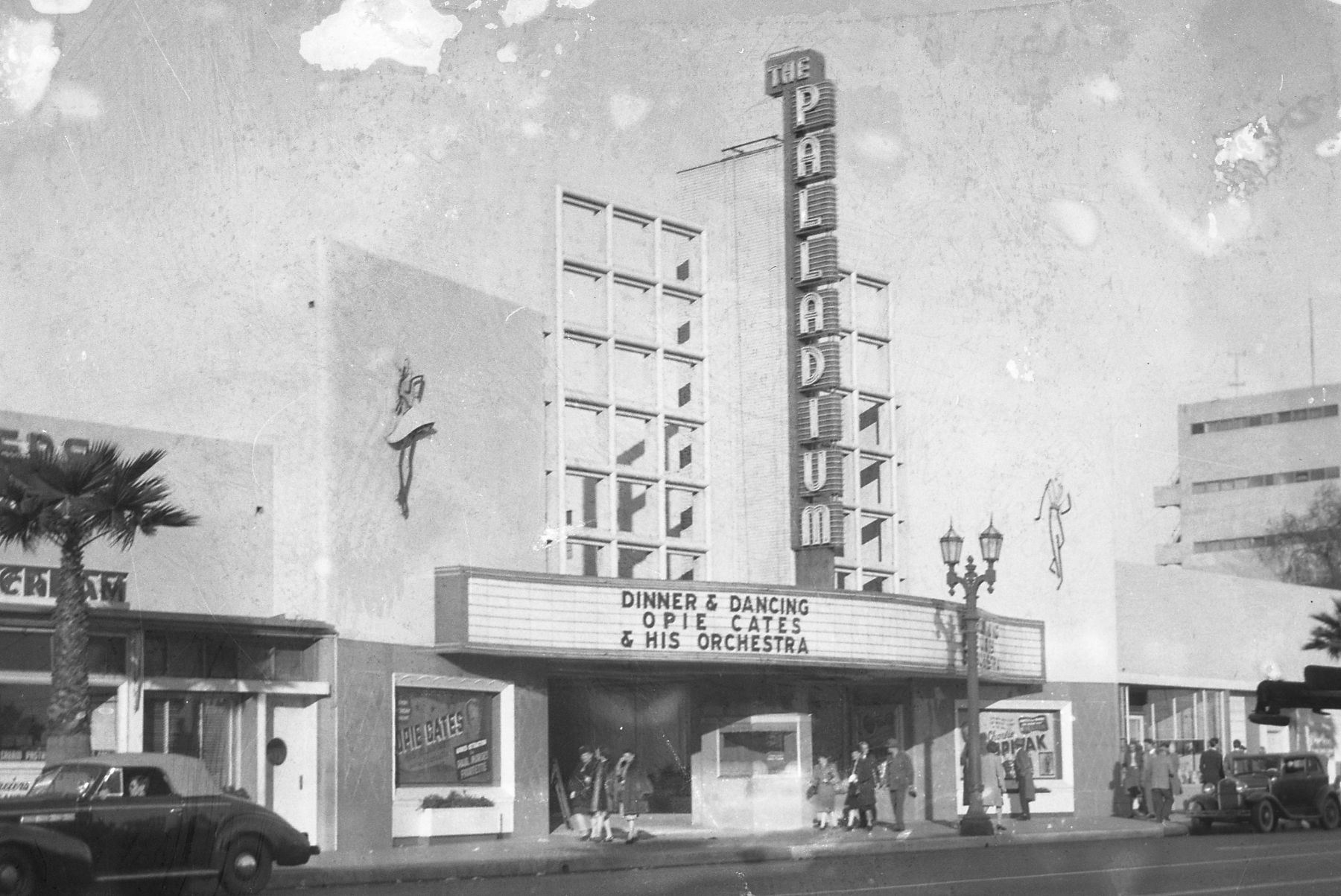 Exterior view of the Hollywood Palladium in 1947, with Opie Cates on the bill. Other information Photo by George Garrigues.